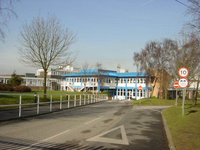 Carmel College, St Helens. Carmel College was established in 1987 when Catholic secondary education in St Helens was reorganised. Nearly 50% of the students come from St Helens, about 15% from Warrington, it also attracts students from Liverpool, Knowsley, Wigan and other parts of Greater Merseyside